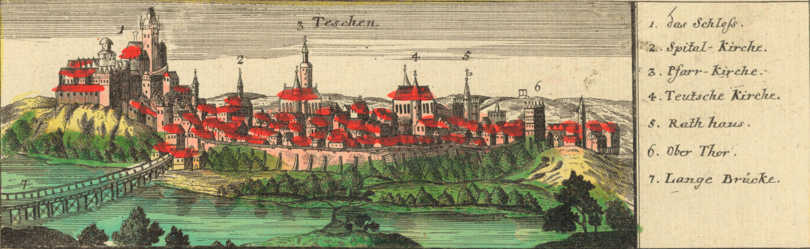 17th/18th century panorama of Teschen by Joh David Schleuen